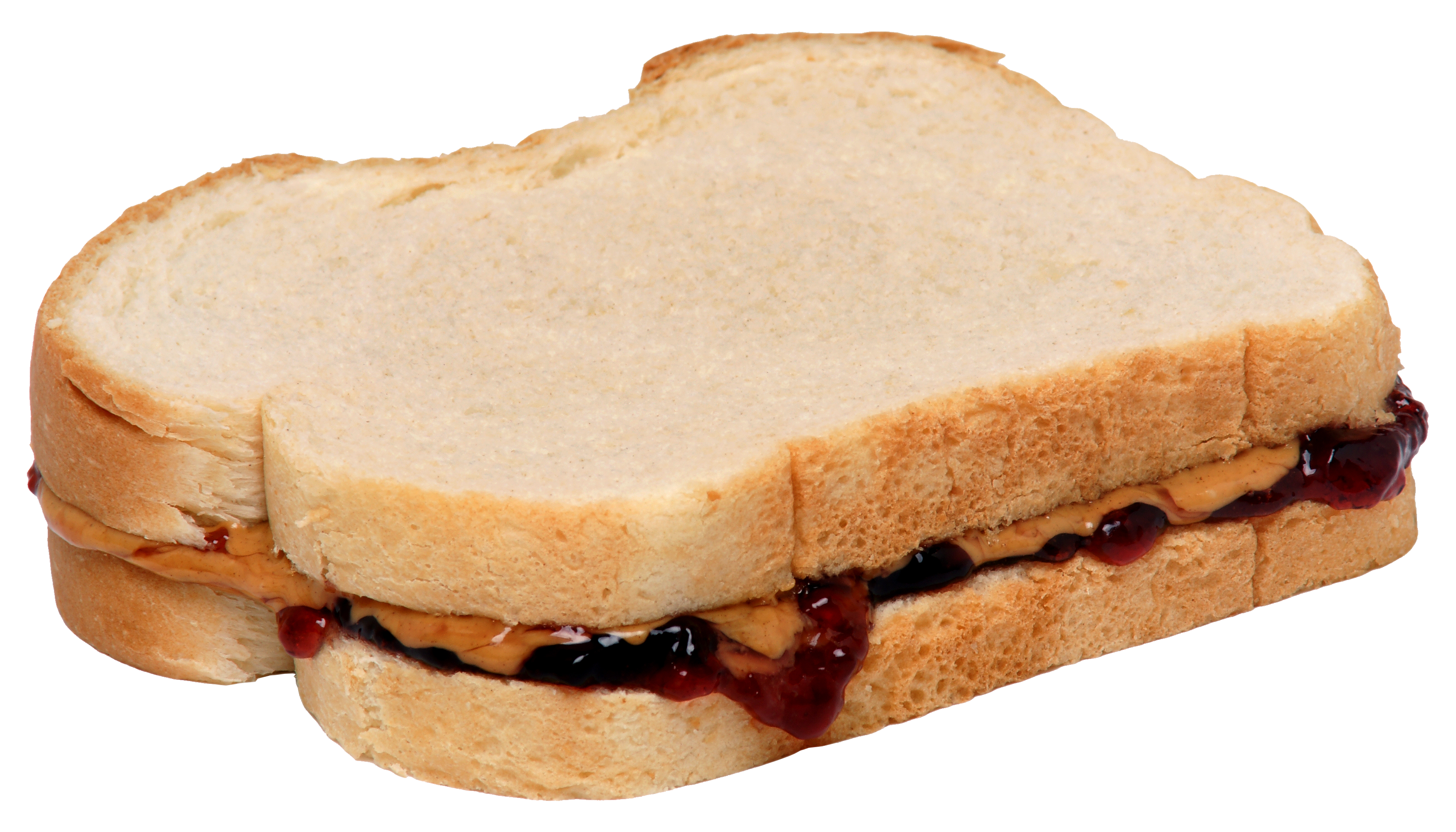 A peanut butter and jelly sandwich, made with Skippy peanut butter and Welch's grape jelly on white bread.